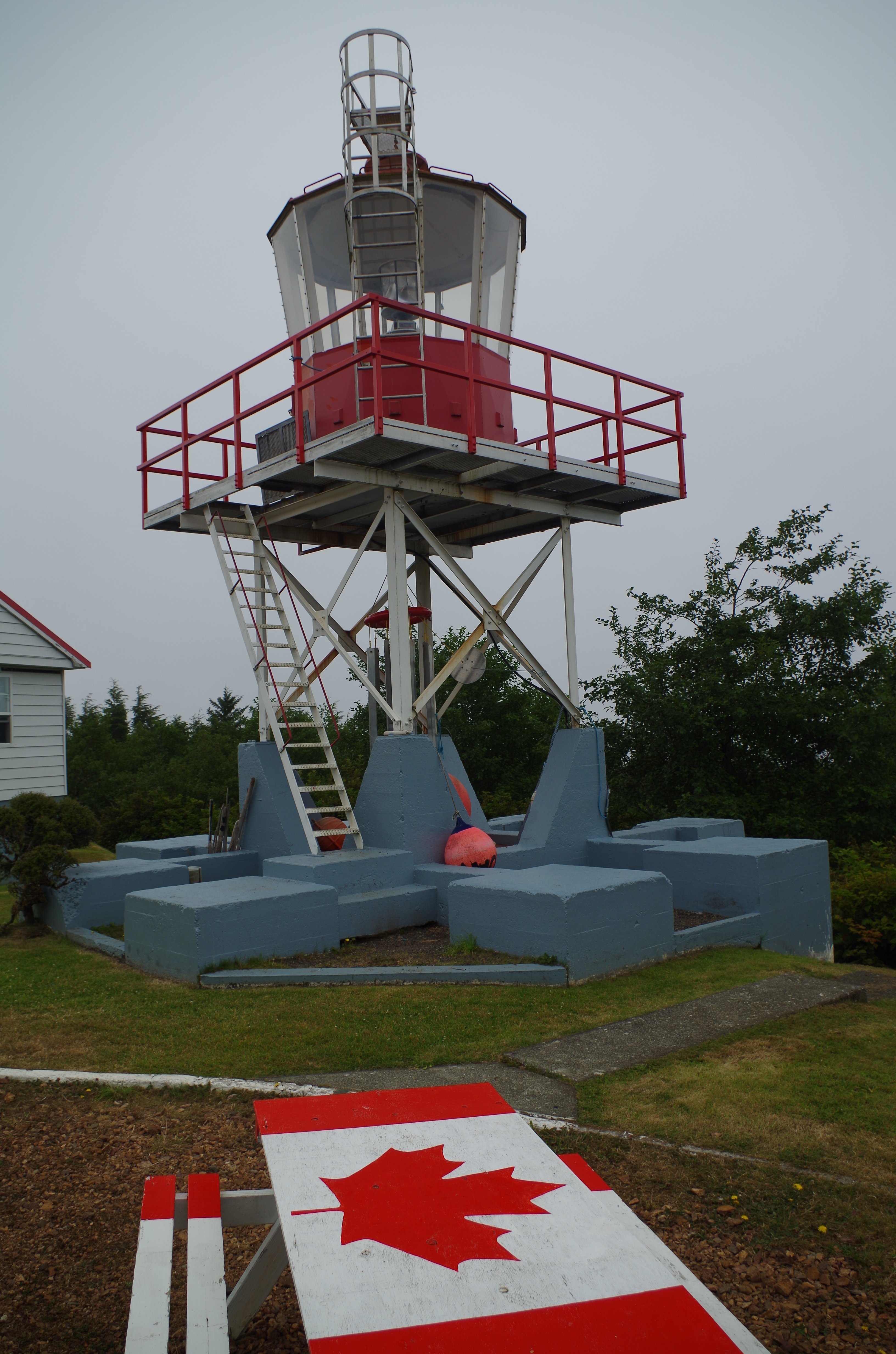 No cupcakes for sale